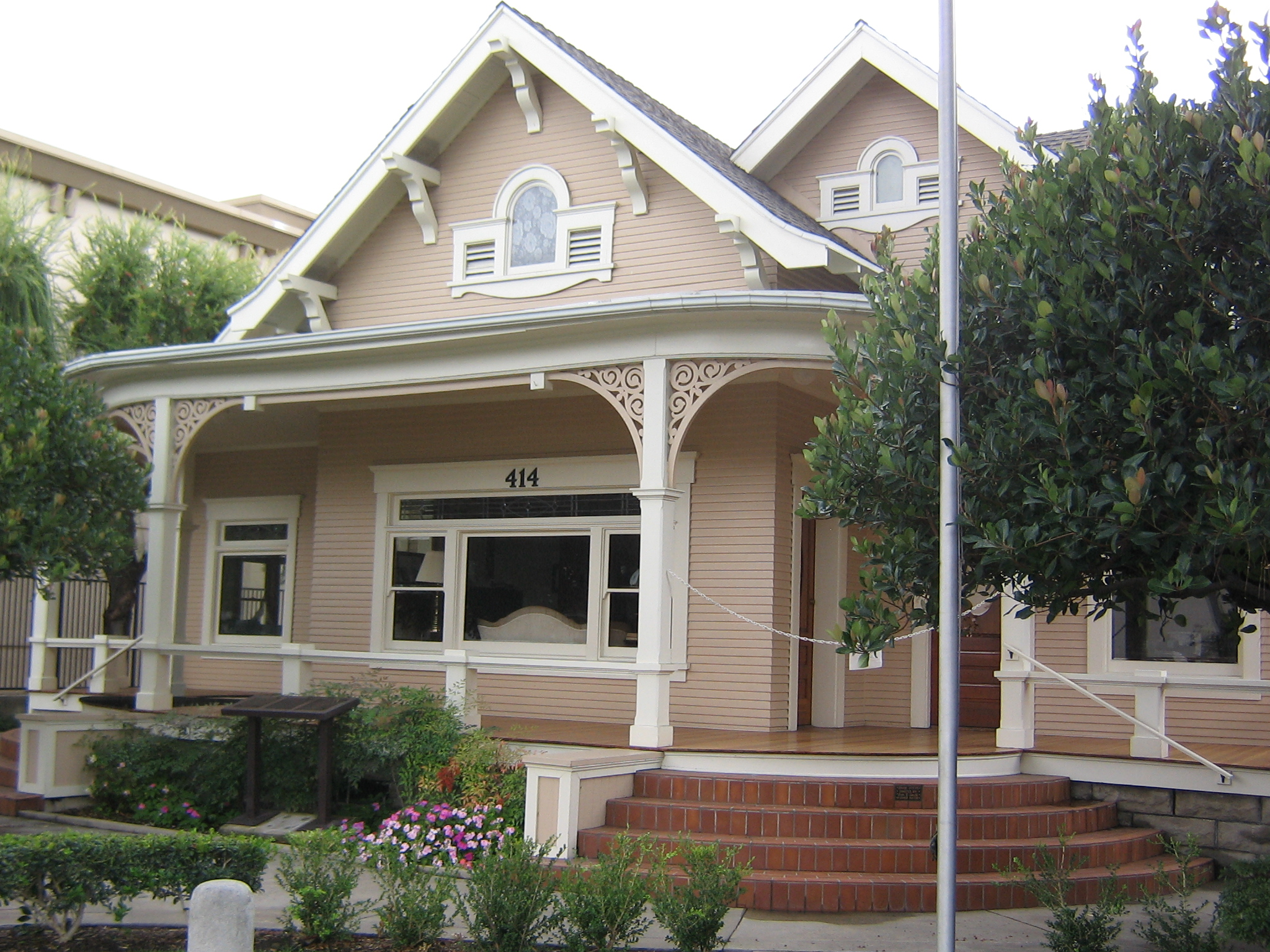 The Ainsworth Historical House, Orange, CA